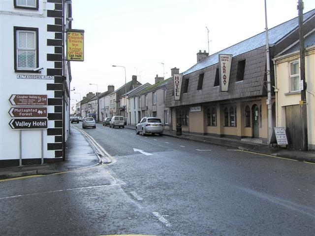 Fivemiletown